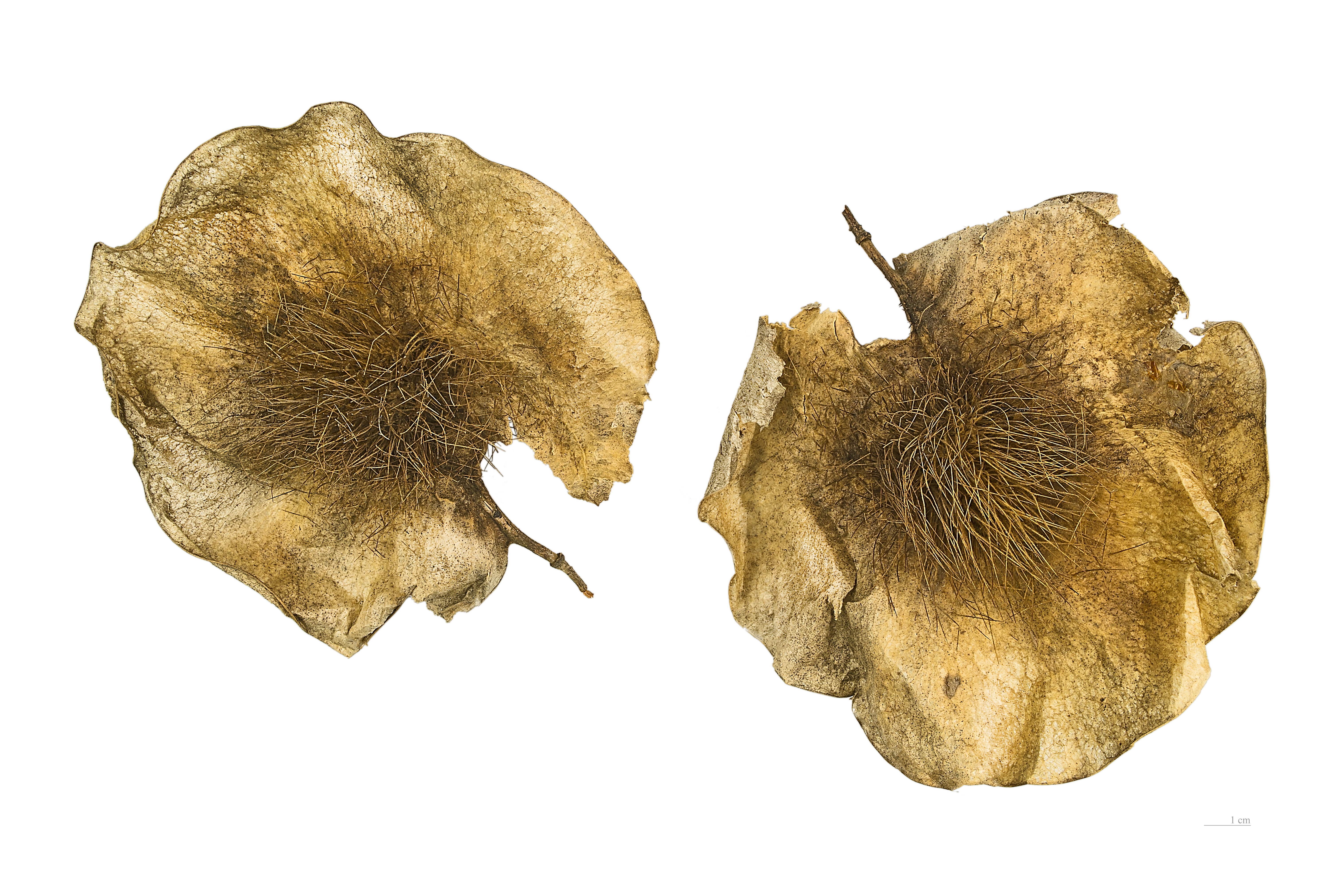 Pterocarpus angolensis, seed pods